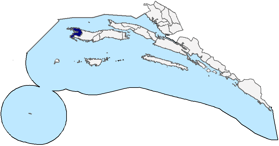 Self-made map of Vela Luka municipality within Dubrovnik-Neretva County.